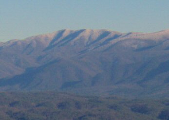 Thunderhead Mountain in the Great Smoky Mountains of East Tennessee (Southeastern U.S.), as viewed from Look Rock along the Chilhowee section of Foothills Parkway. Thunderhead is the highest point in Blount County.